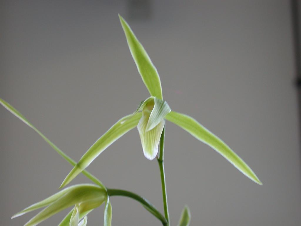 Cymbidium kanran (Orchidaceae) Japanese name:Knran 白妙(siratae) Date;2007,11,17;Tanabe city, Wakayama prefecture, Japan Author;Keisotyo